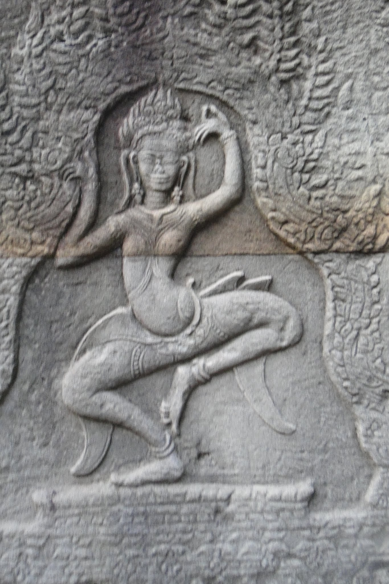 Beautiful Apsara dancing